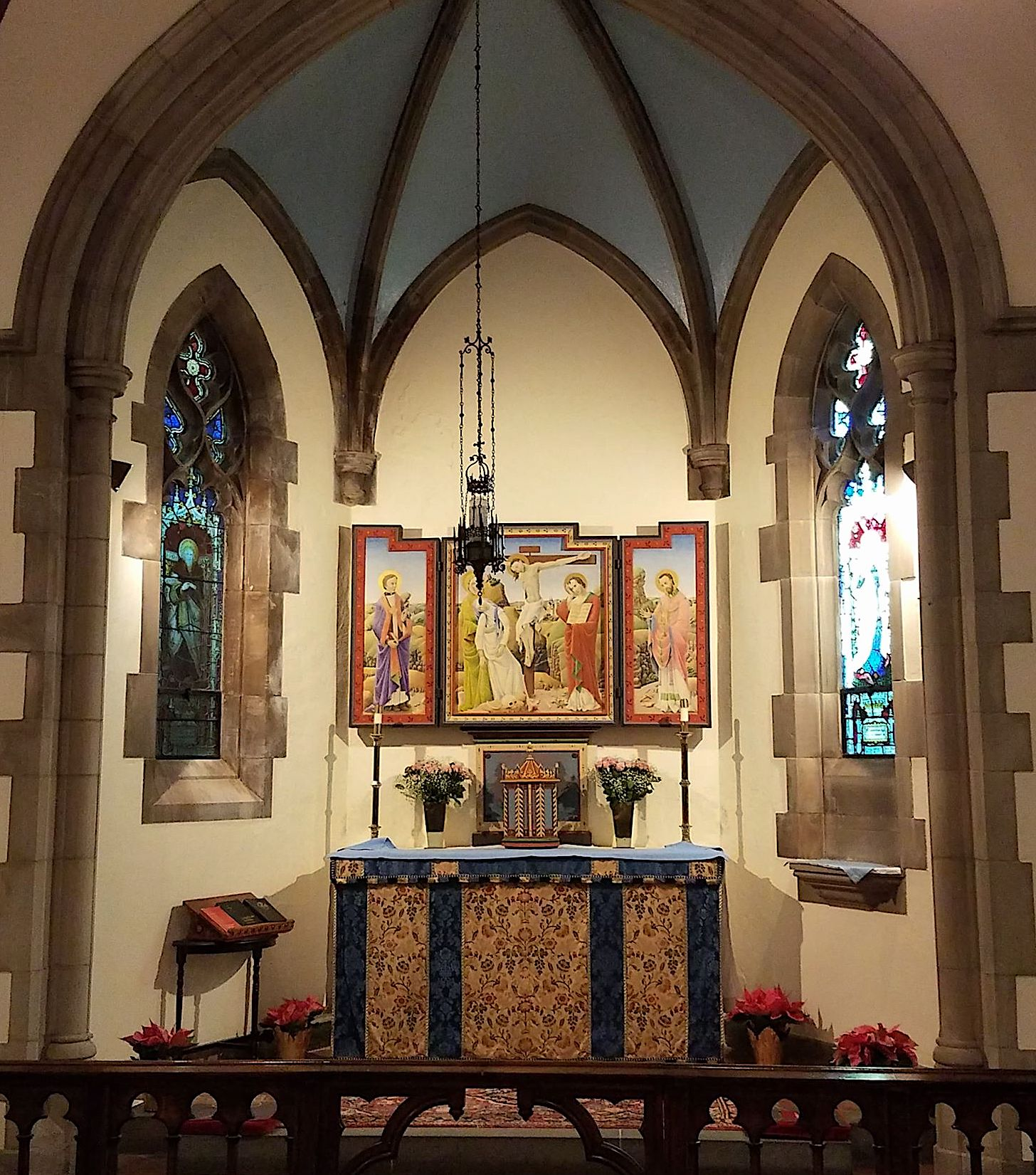 Lady Chapel, Church of the Good Shepherd